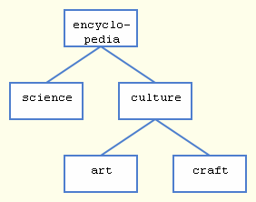 An Example of a tree in the meaning of a tree structure, in this specific case a binary tree. The example depicts the structure of topics in an encyclopaedia.